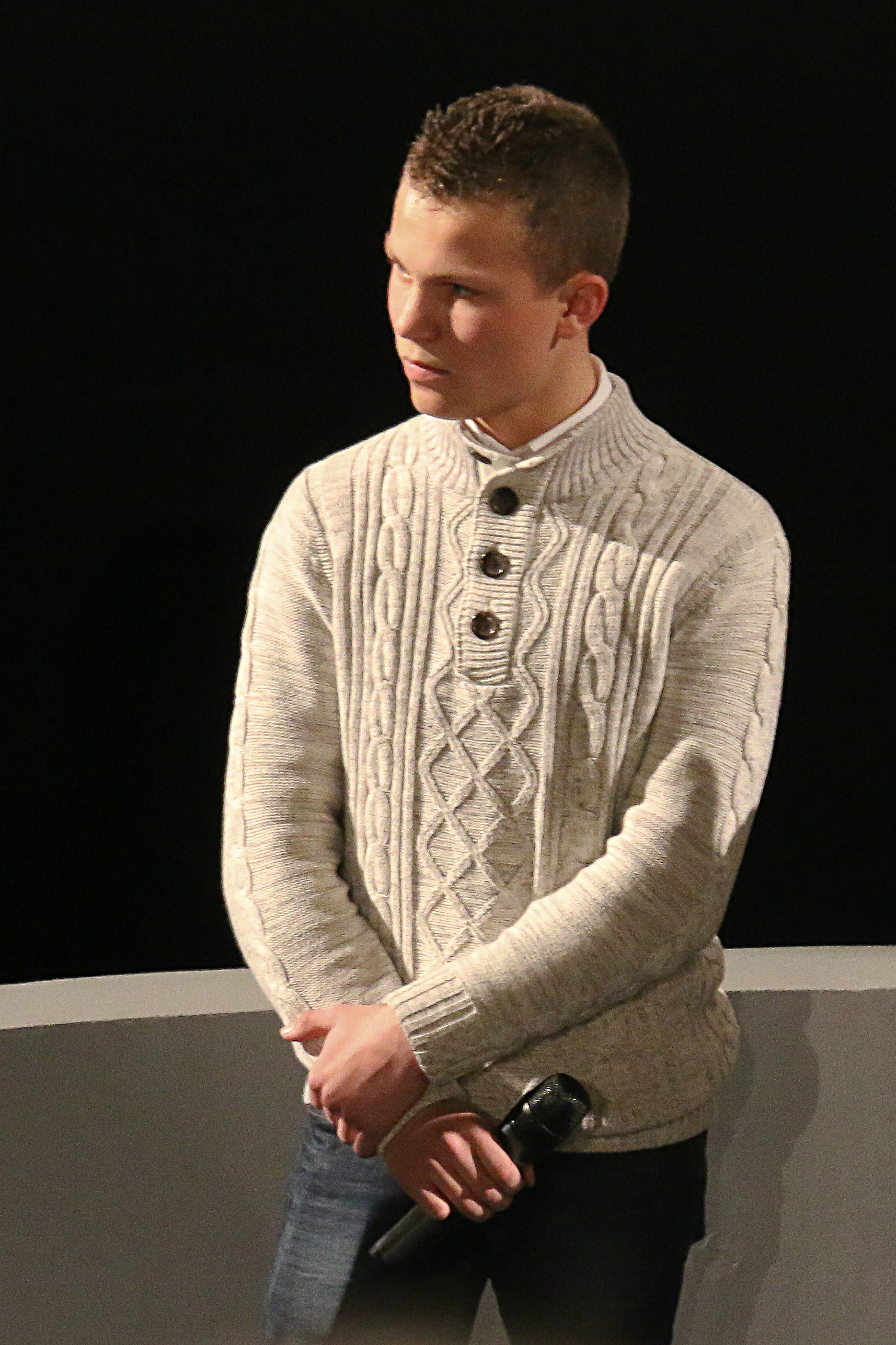 Romain Paul, actor, winner of the Marcello Mastroianni Award at the 2014 Venice Film Festival. Preview of the movie "The last hammer blow".